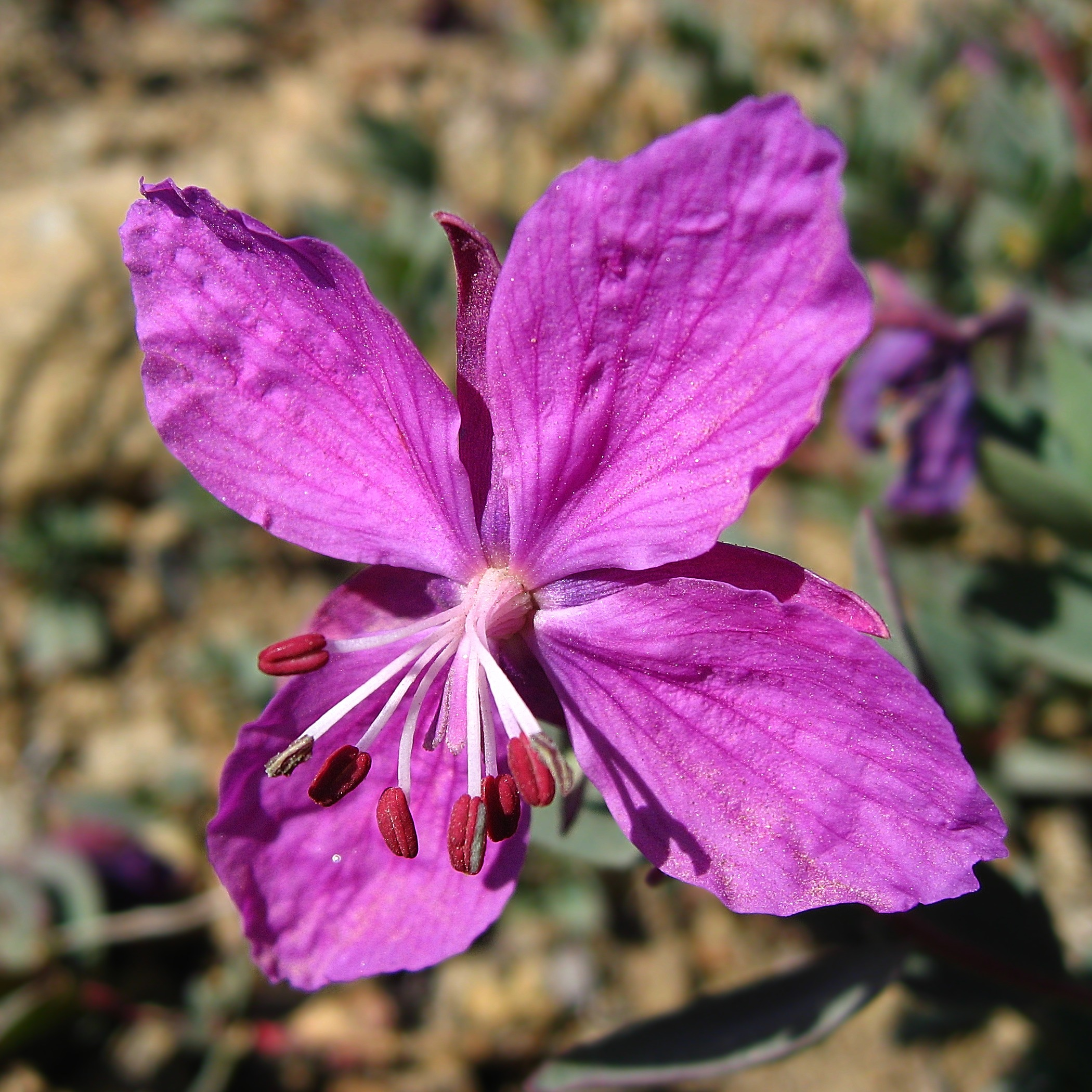 Close-up of the flower on Dwarf fireweed (Chamerion latifolium) photographed on a little north-east of the cemetary in Upernavik, Greenland. This flower is the national flower of Greenland and it is called niviarsiak in Greenlandic, which means something like "little girl".